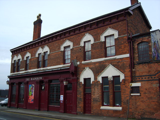 The Rainbow Pub On the corner of High Street Deritend and Adderley Street in Digbeth.